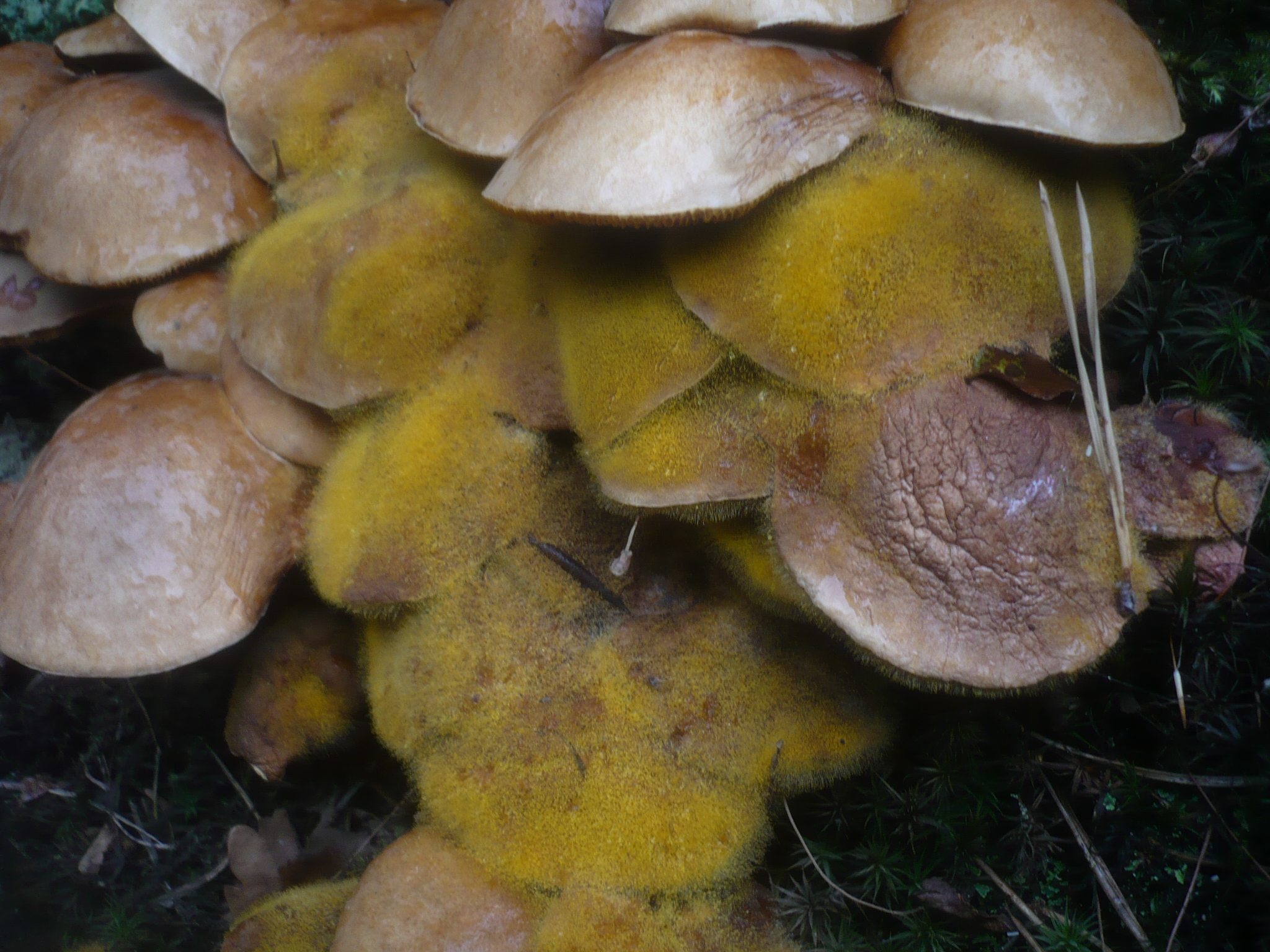 Fruitbodies of the bolete fungus Suillus bovinus attacked by the yellow mold Dicranophora fulva. Specimens found in Mitterriegel, Marz, Bezirk Mattersburg, Burgenland, Austria.